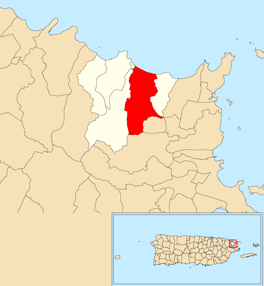 Pitahaya, Luquillo, Puerto Rico locator map